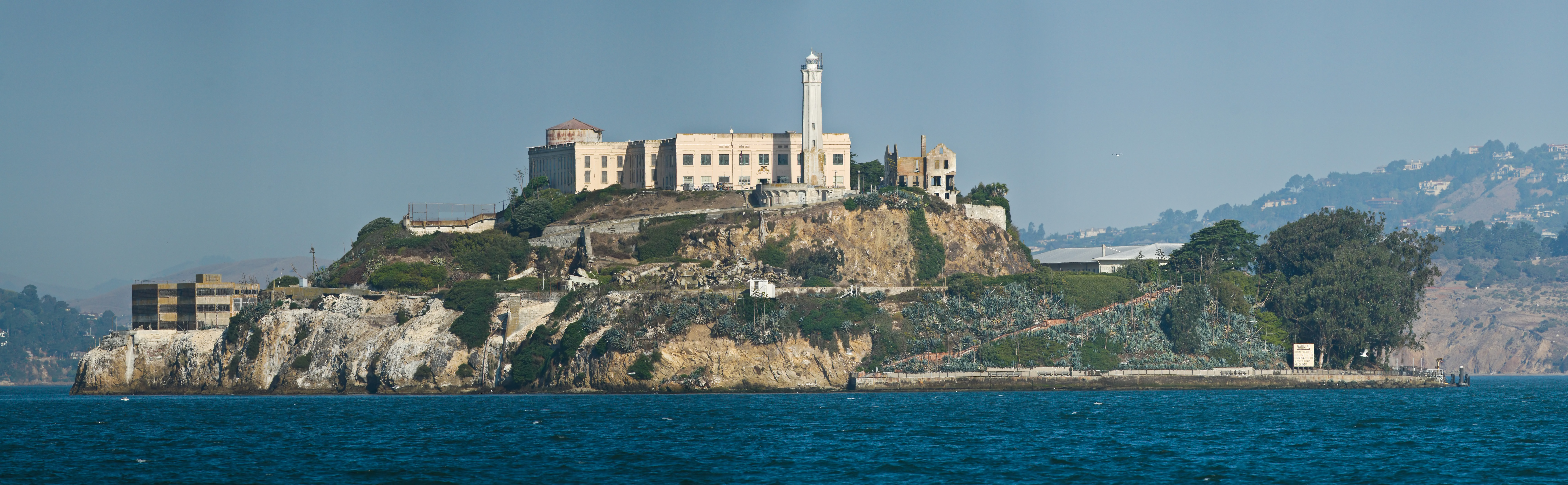 Alcatraz, as seen from Pier 39. Panorama stitched from 6 portrait format images. For stitching PTGUI [2] was used.